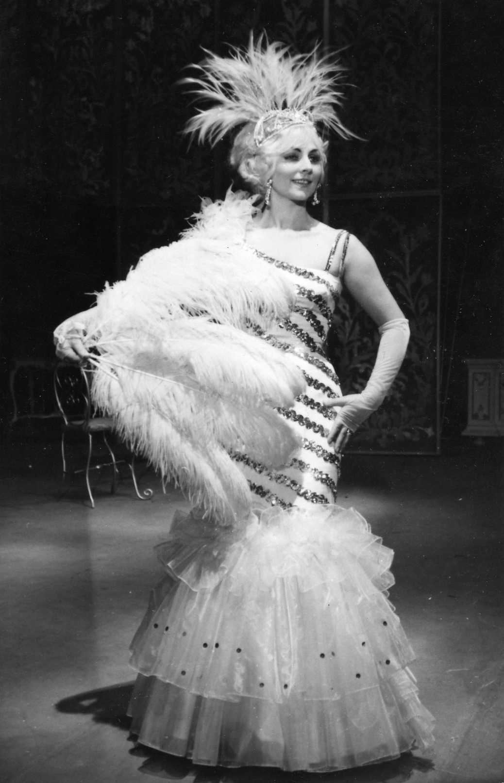 Katarína Mereššová, Csefalvay (28.5.1930) soprano